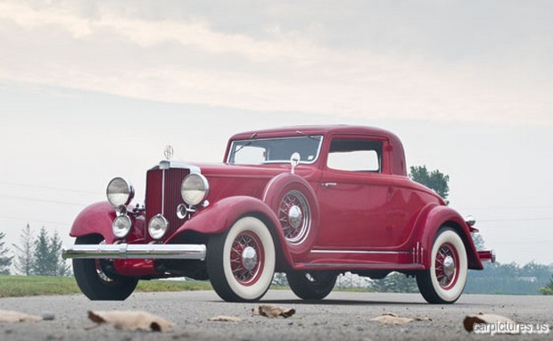 1932 Hupmobile Series-I 226 Rumbleseat Coupe